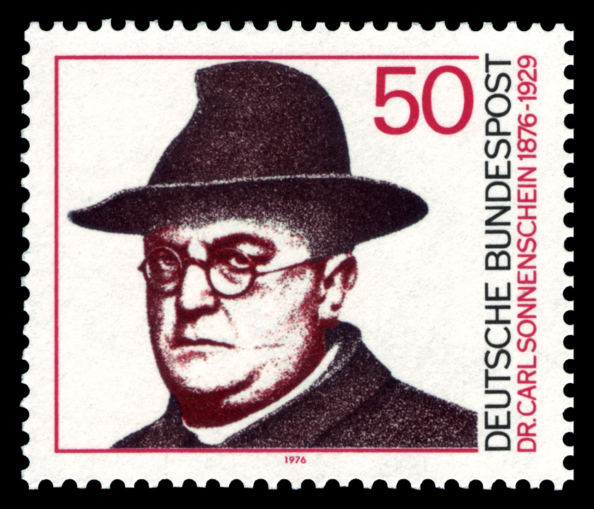 stamp for hundred years of birth of Dr. Carl Sonnenschein (1876-1929) Ausgabepreis: 50 Pfennig First Day of Issue / Erstausgabetag: 13. Mai 1976 Michel-Katalog-Nr: 892